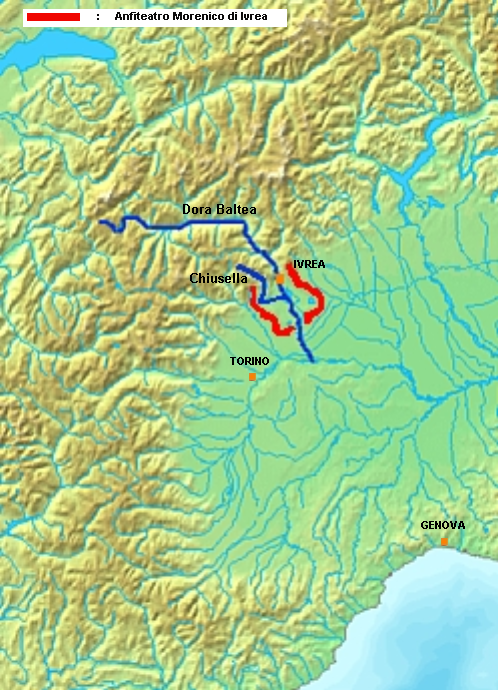 Loaction of AMI (Anfiteatro Morenico di Ivrea); TO,VC,BI; Italy